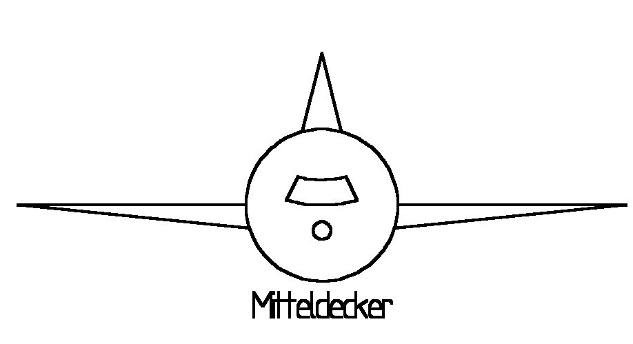 Mid-wing aircraft